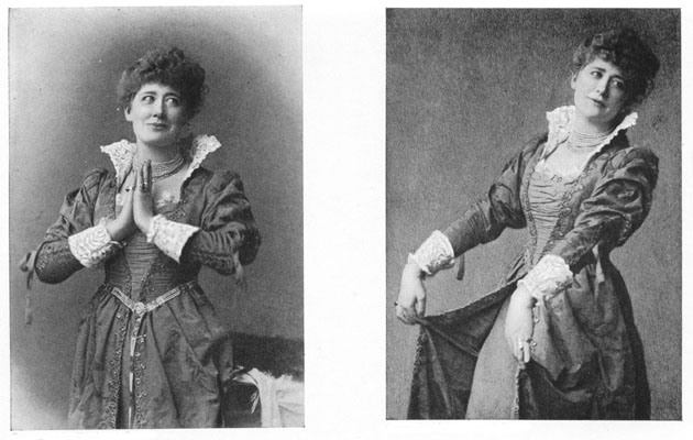 Dame Ellen Terry as Beatrice in Shakespeare's Much Ado About Nothing